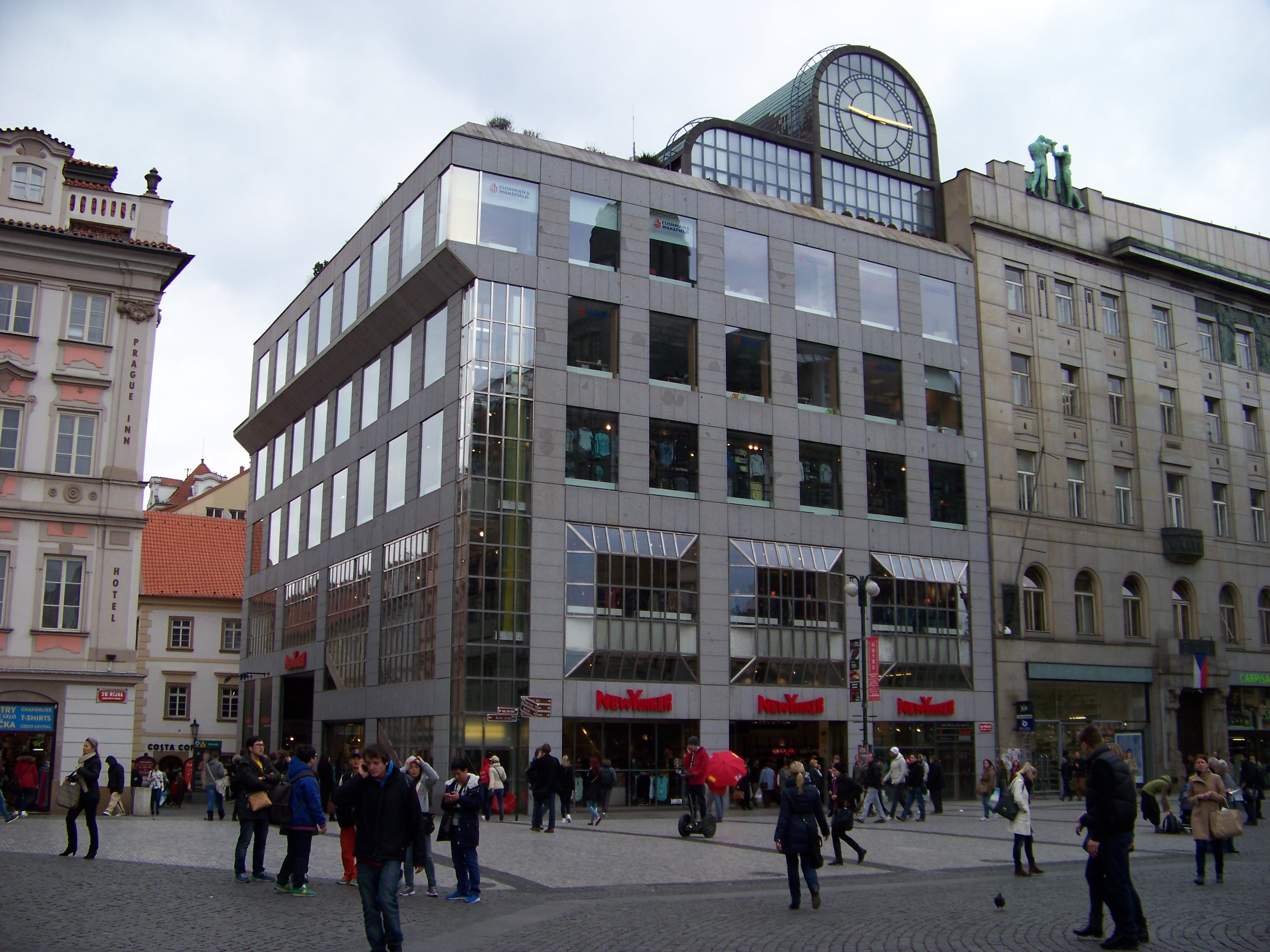 Prague-Old Town, Czech Republic. Na příkopě 388/1, Na můstku 388/9.